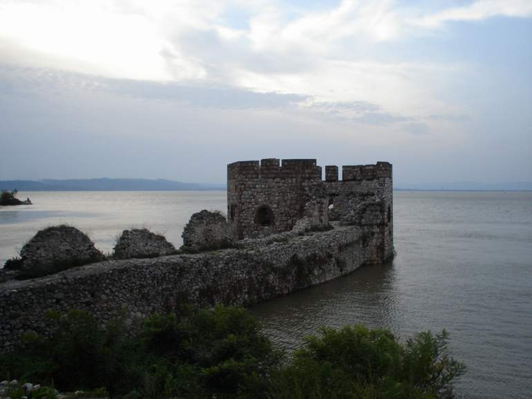 Cannon Tower controling Danube.